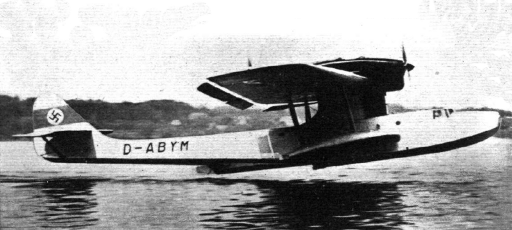 The German Lufthansa Dornier Do 18E flying boat (D-ABYM "Aeolus") taking off.